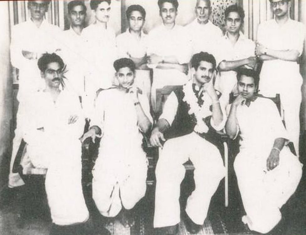 Felicitation to NTR in 1949 when he resigned job